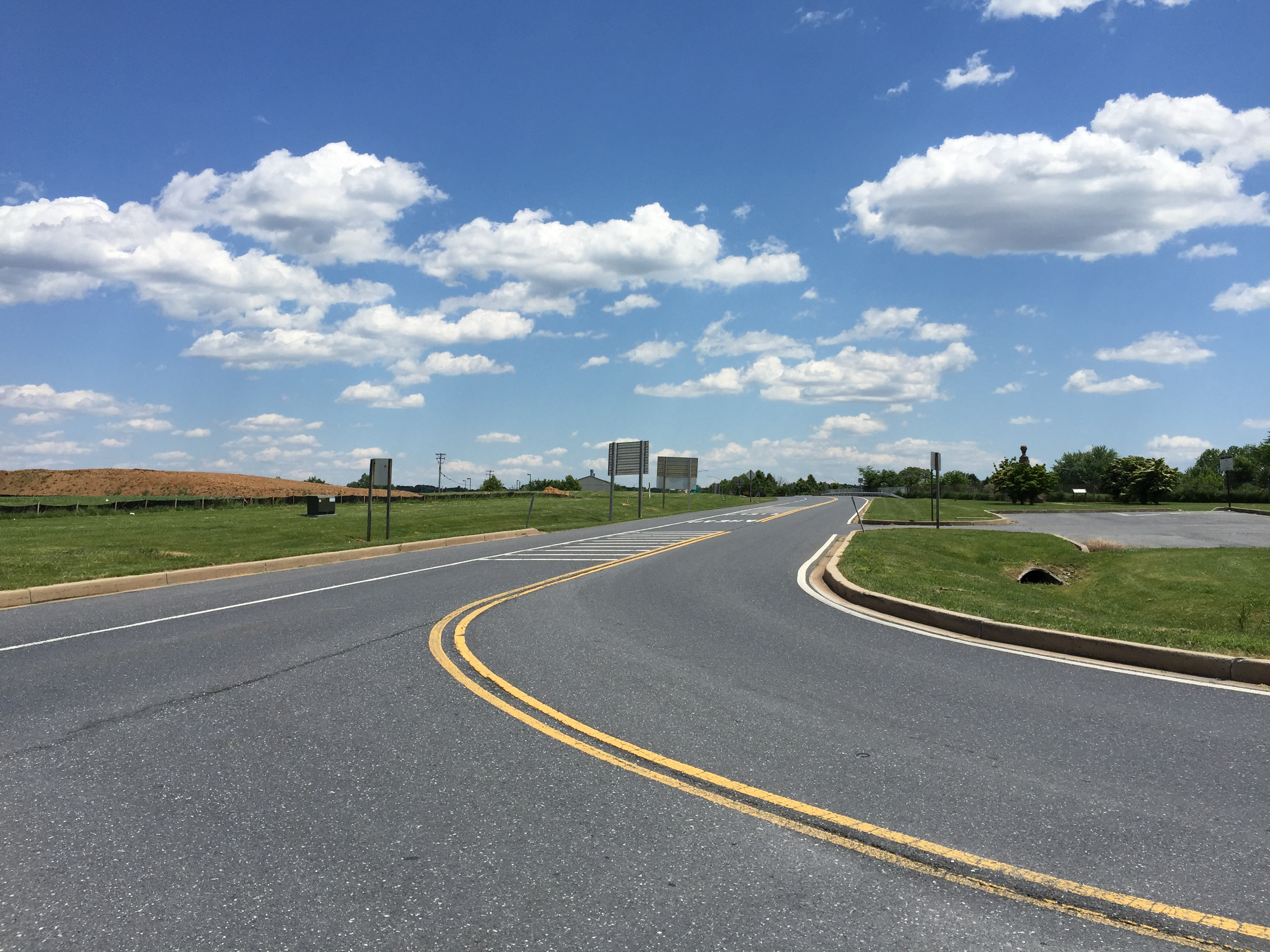 View east at the west end of Maryland State Route 870 (Patrick Street) at Maryland State Route 144 (Patrick Street) in Frederick, Frederick County, Maryland